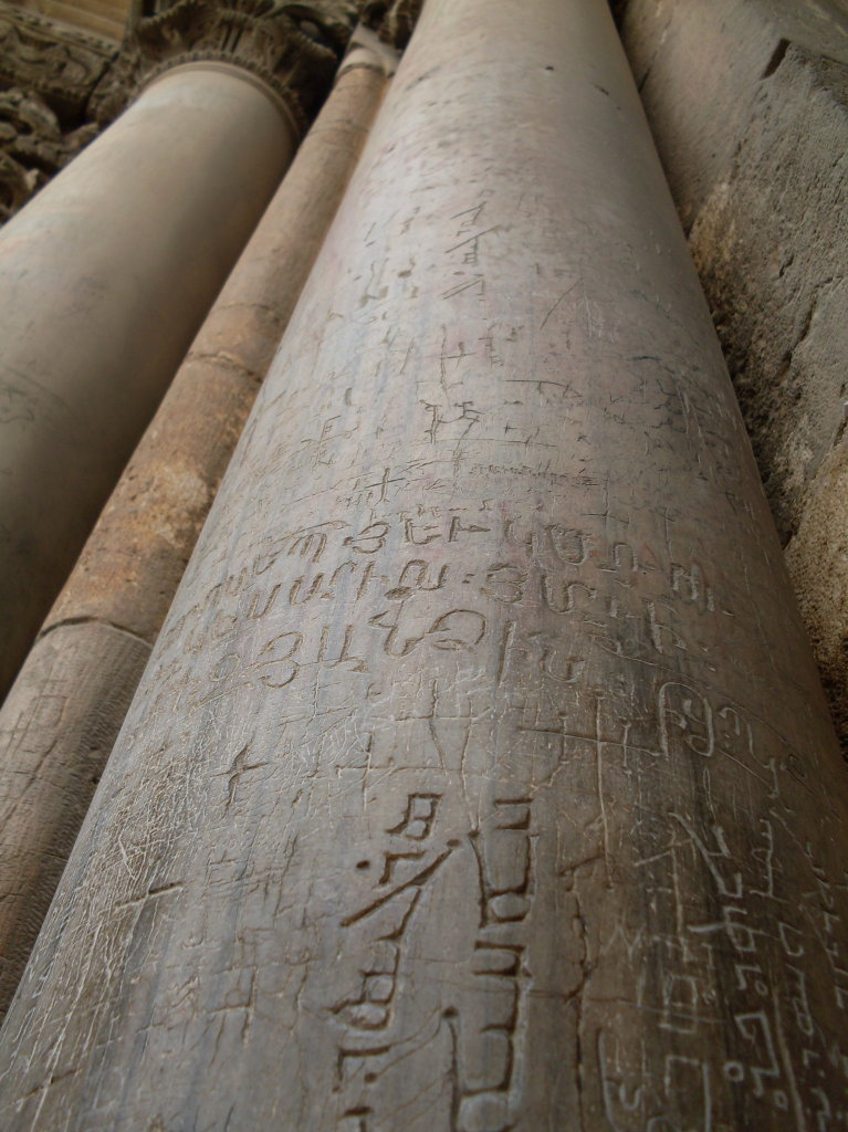 Syriac alphabet (estrangelo) on the column in the entrance to the Church of the Holy Sepulchre in Jerusalem.